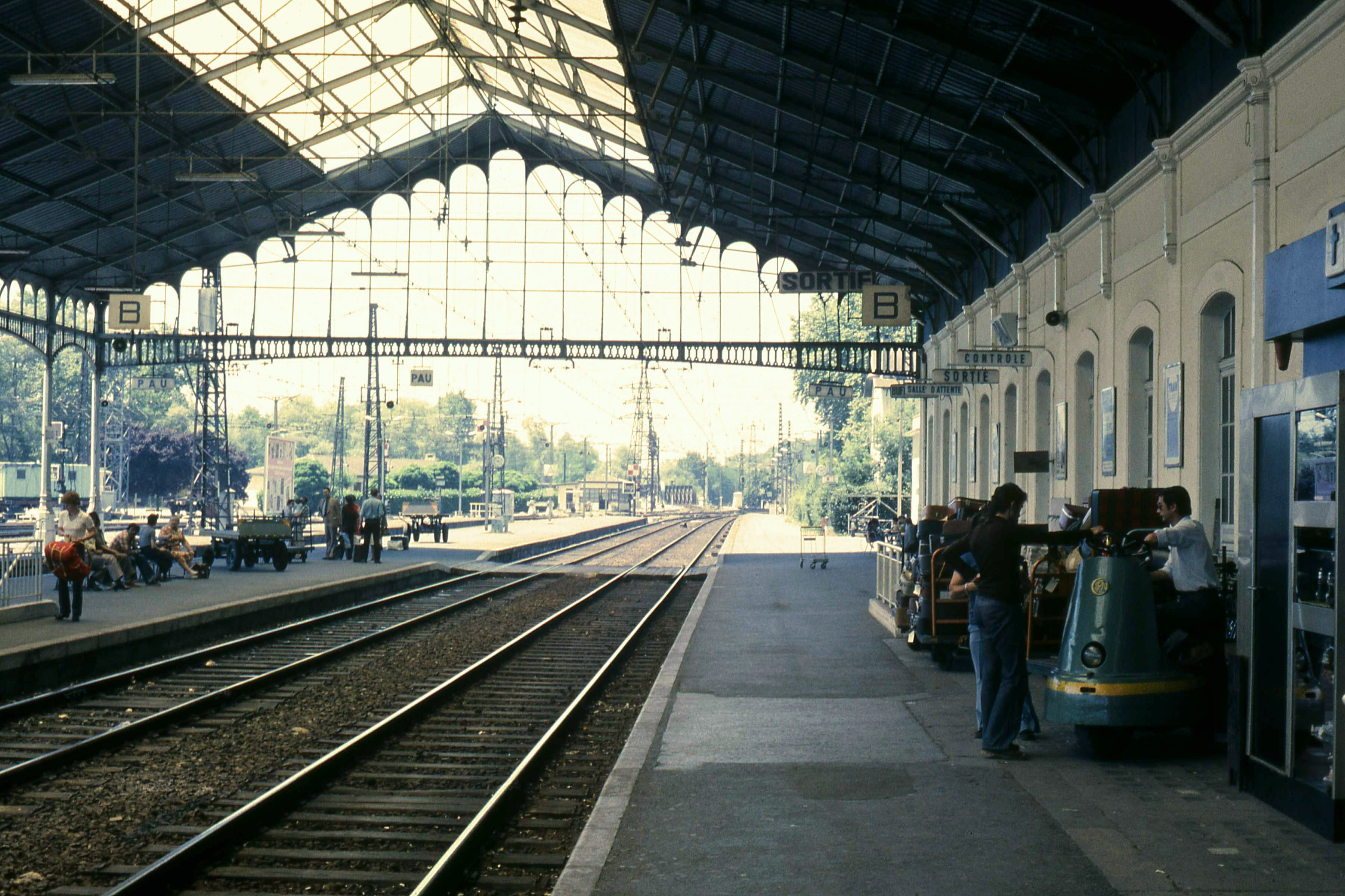 Pau station in 1979